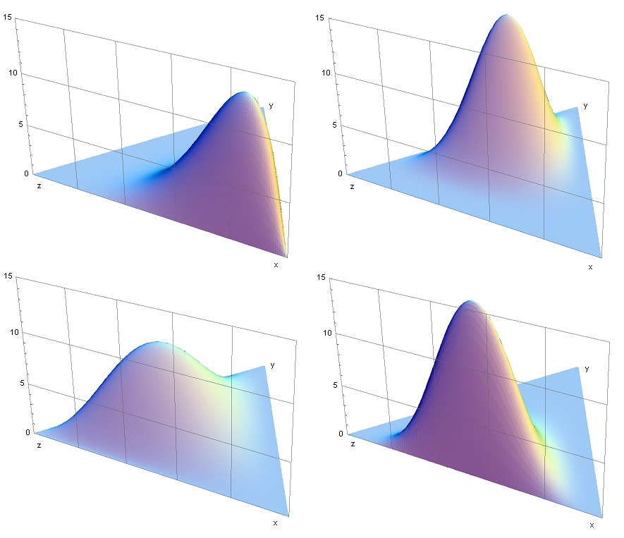 Several images of probability densities of the Dirichlet distribution as functions on the 2-simplex. Clockwise from top left: α = (6,2,2), (3,7,5), (6,2,6), (2,3,4).